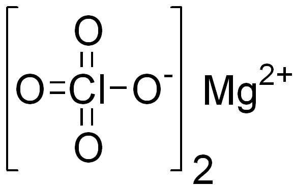 chemical structure of magnesium perchlorate